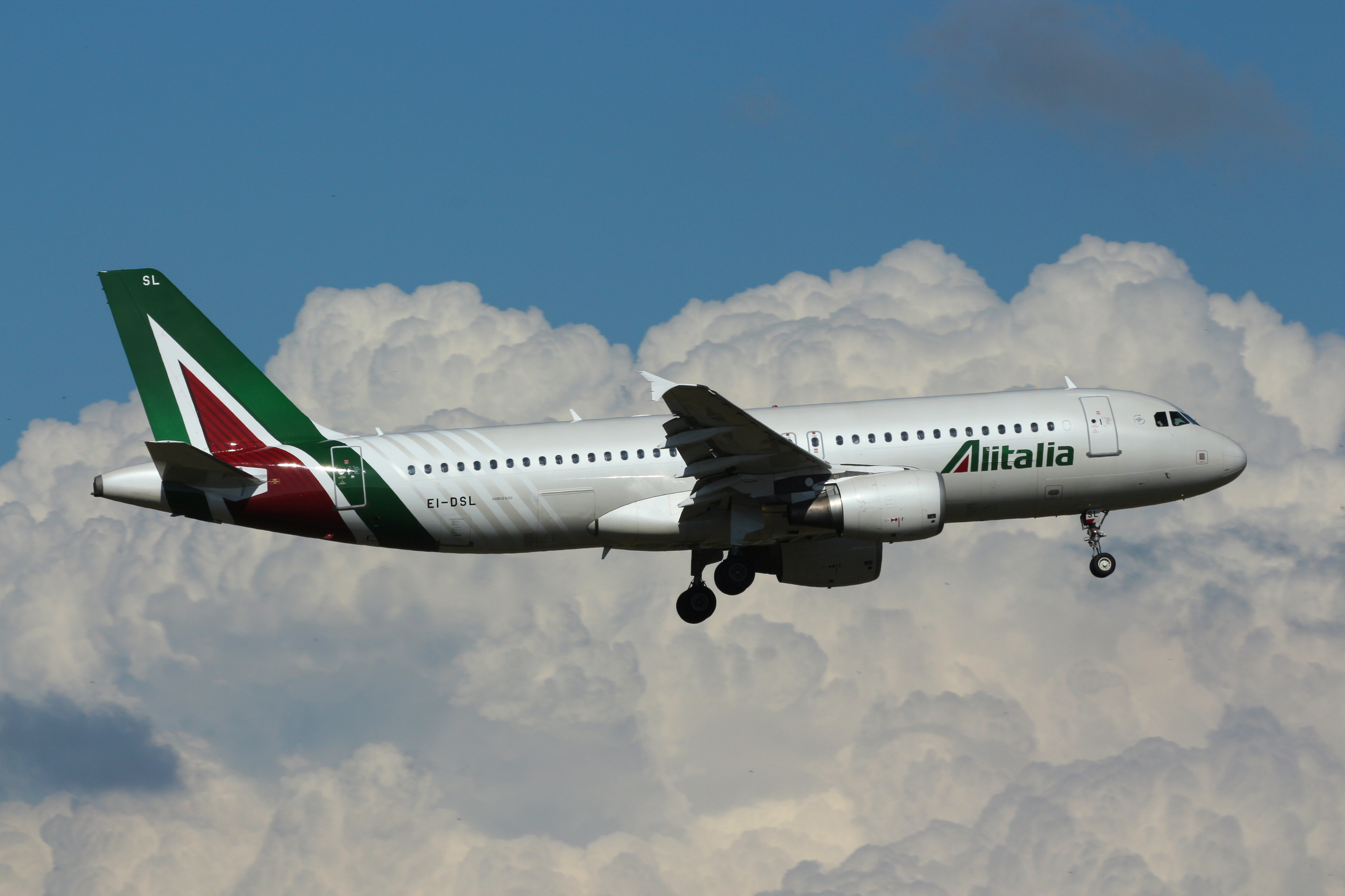 On final approach FCO's runway 16L